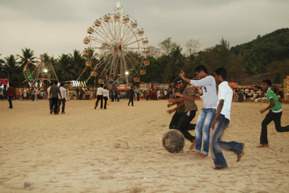 Polali Shri Rajarajeshwari temple chendu game